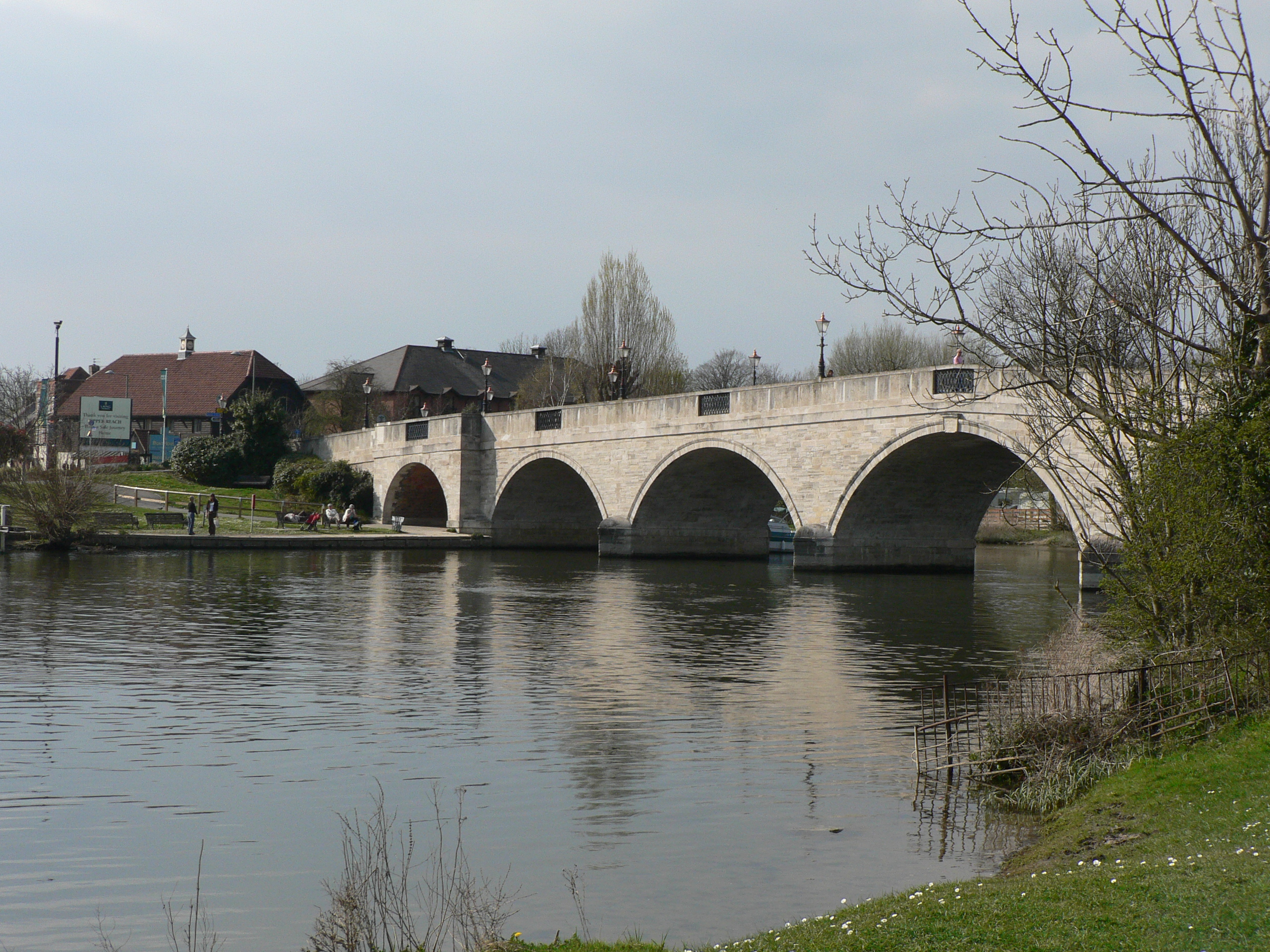 Bridge over River Thames near Chertsey, Surrey, England, built 1783-85 by James Paine